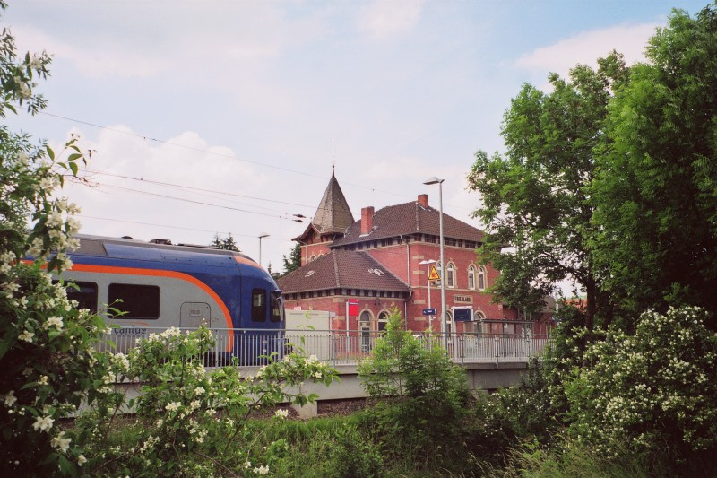 Ein Zug der Cantus haelt im Bahnhof Friedland - Railway station Friedland (Han), Germany, with "Cantus" regional train